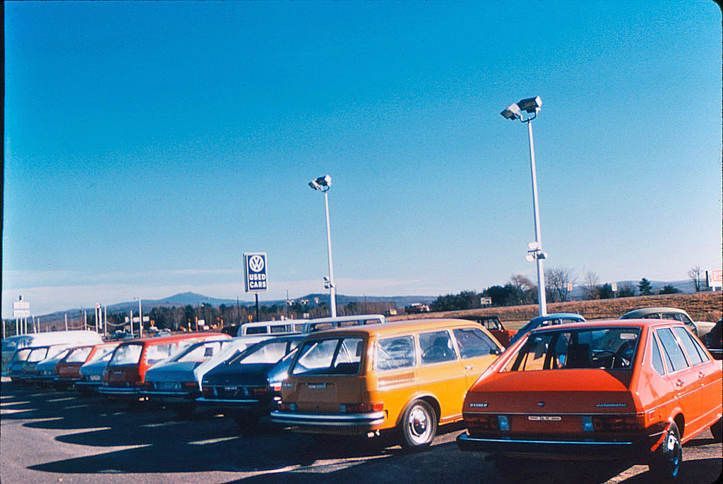 TITLE Car Dealership in Keene New Hampshire CREATOR Wardwell, Anne, Keene NH SUBJECT Automobiles - NH - Keene DESCRIPTION "...or [the mountain] becomes subservient to them." PUBLISHER Keene Public Library and the Historical Society of Cheshire County DATE DIGITAL 20090319 DATE ORIGINAL 1975 RESOURCE TYPE slides FORMAT image/jpg RESOURCE IDENTIFIER hsykfok079 RIGHTS MANAGMENT No known copyright restrictions.